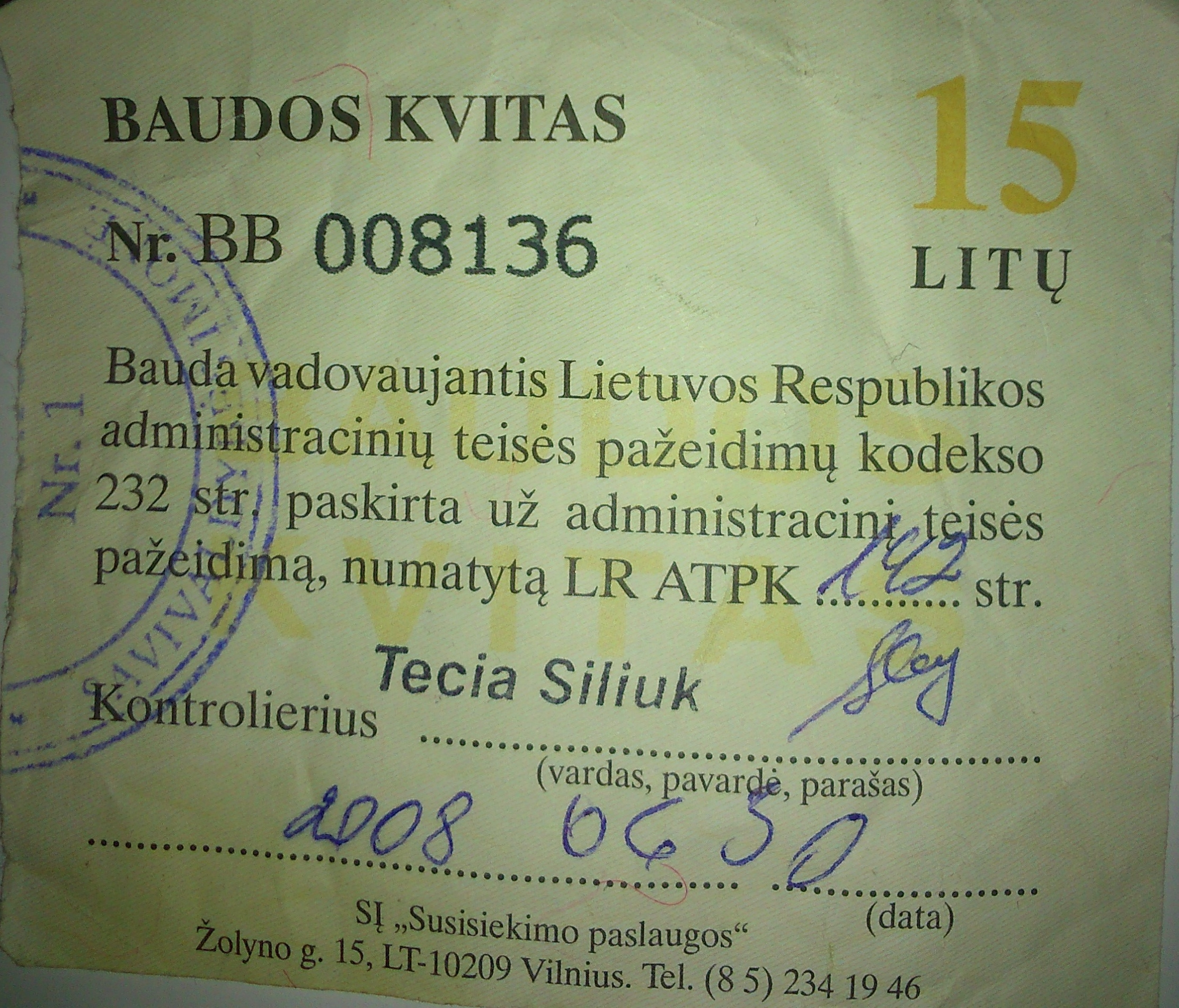 Baudos kvitas (SĮ "Susisiekimo paslaugos")